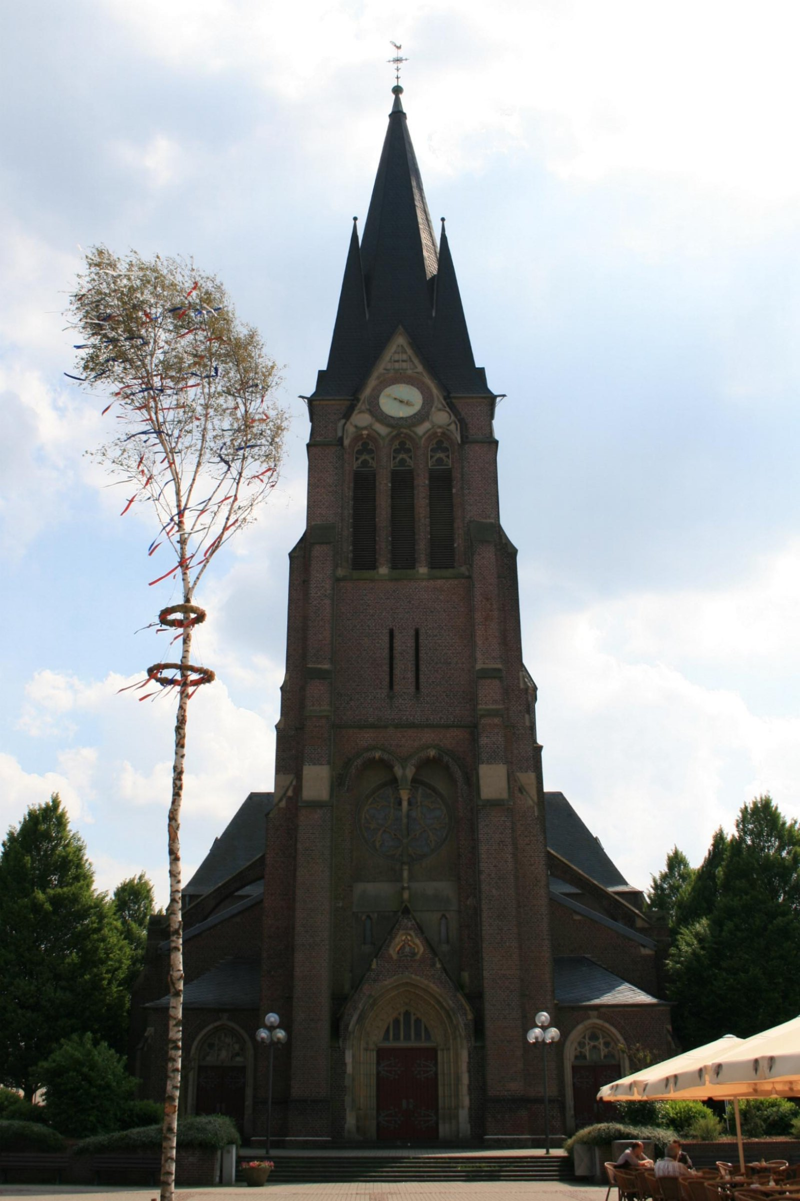 Cultural heritage monument No. K 026 in Mönchengladbach